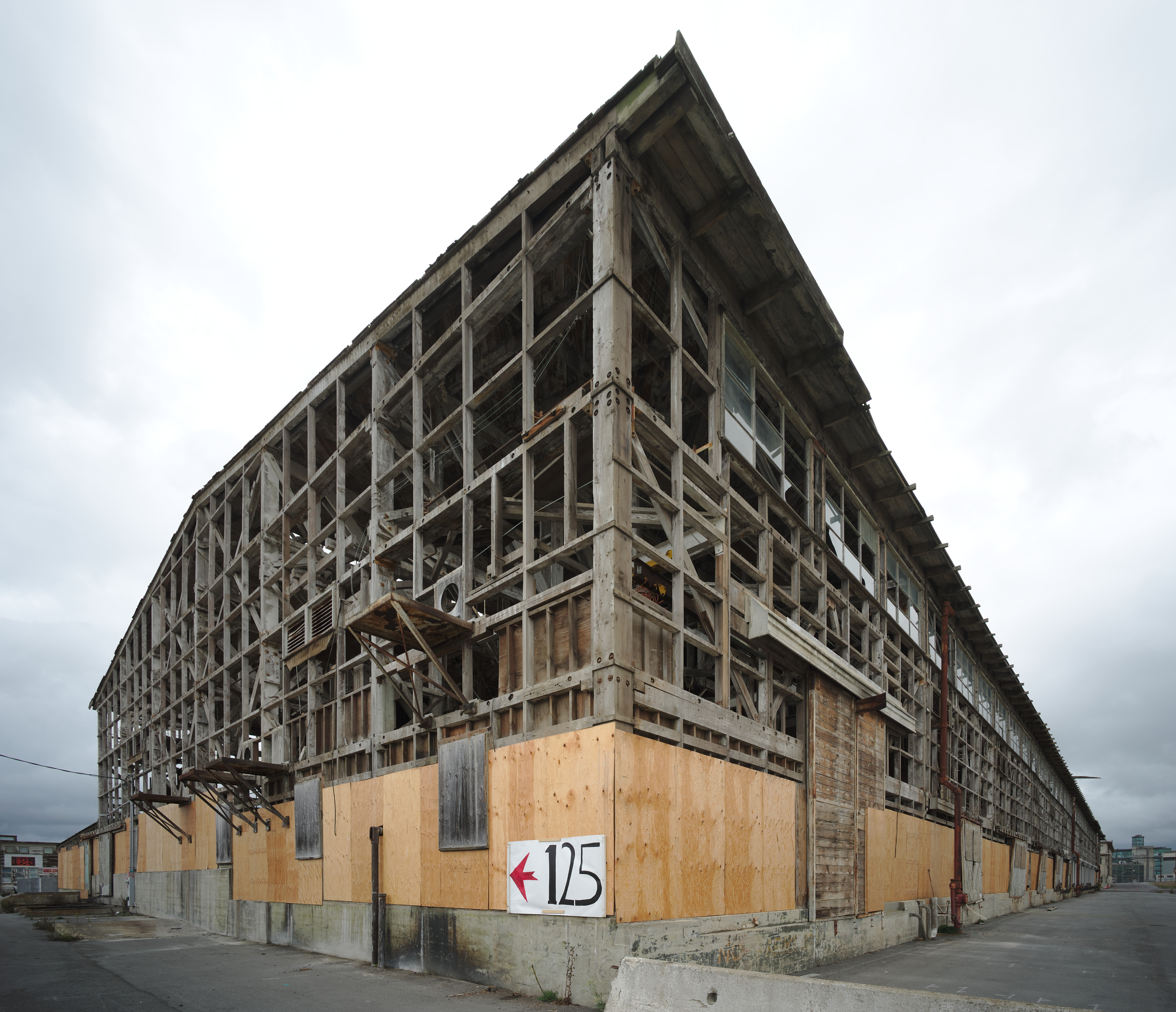 An abandoned building at Hunter's Point Shipyard in San Francisco.